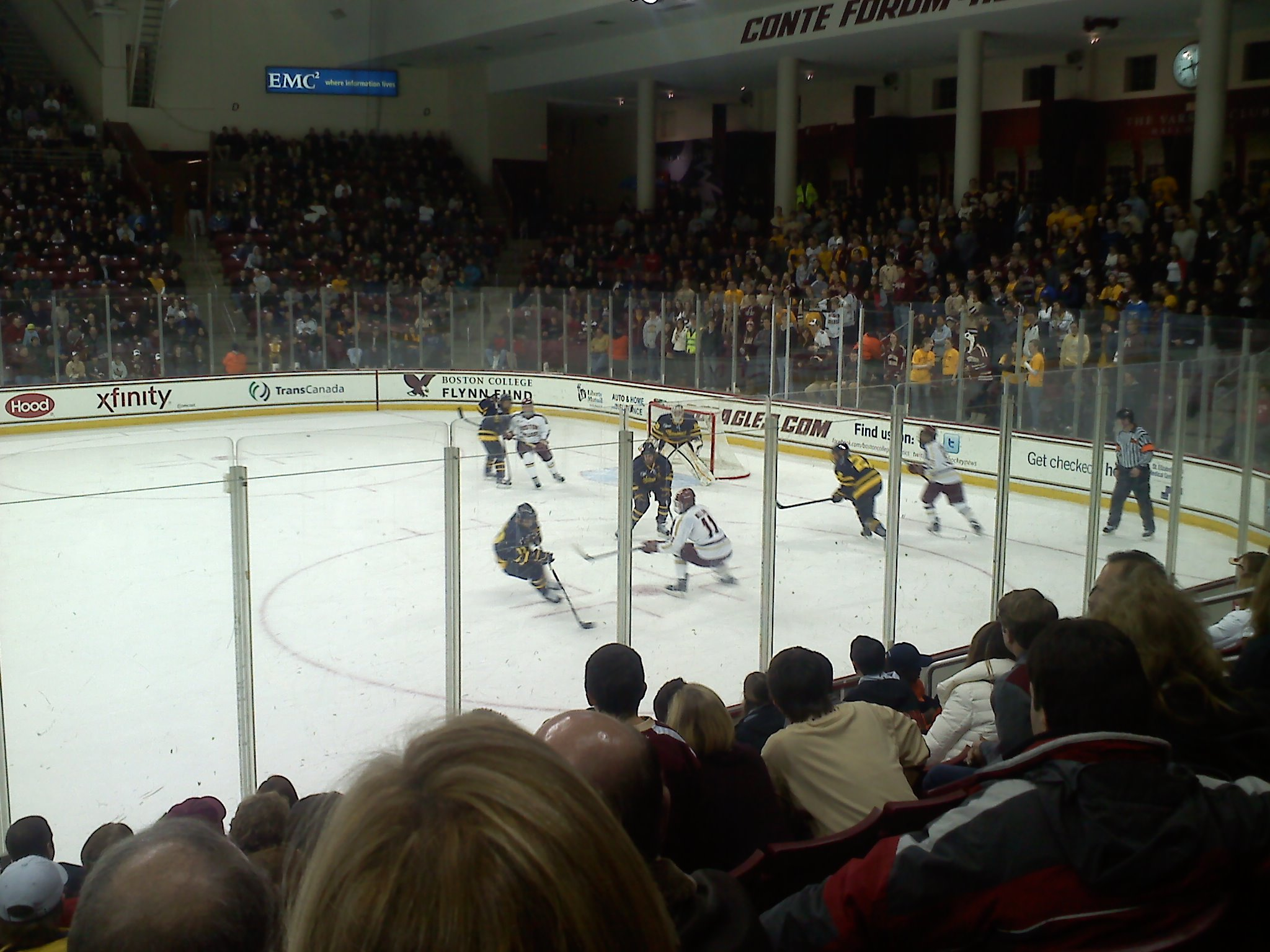 Merrimack College Warriors vs. Boston College Eagles on November 16, 2012 at Kelley Rink in Chestnut Hill, MA.